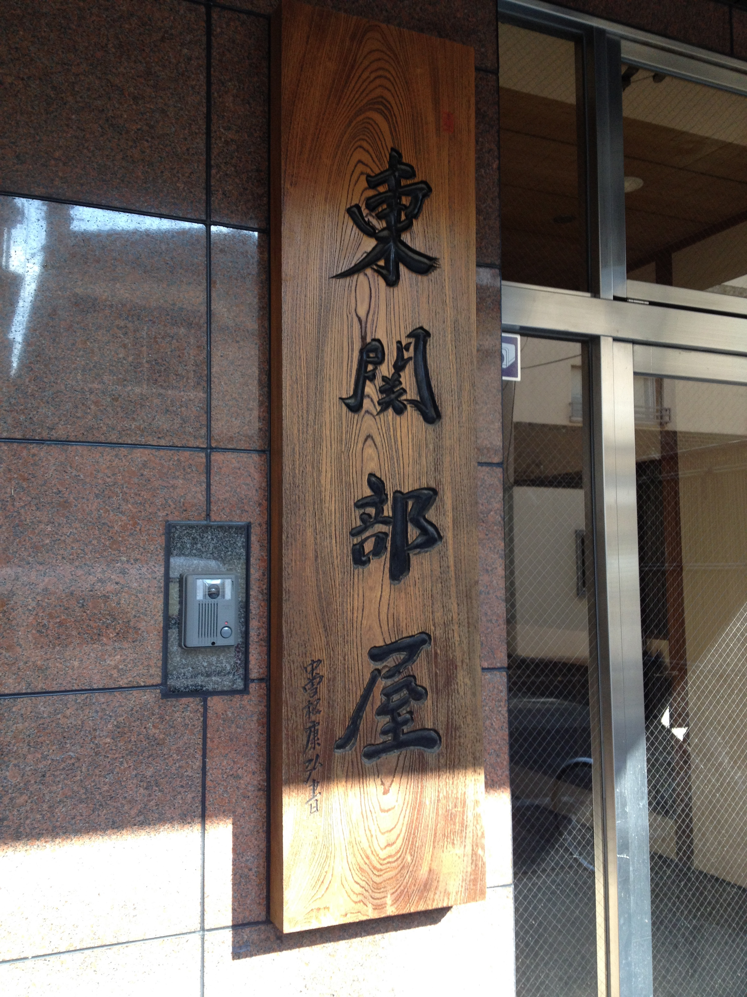 sign of the sumo stable